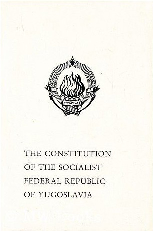 The Constitution of the Socialist Federal Republic of Yugoslavia (English version), published by The Secretariat of the Federal Assembly Information Service, Begrade: (N.P.); 1St Edition edition (1974).